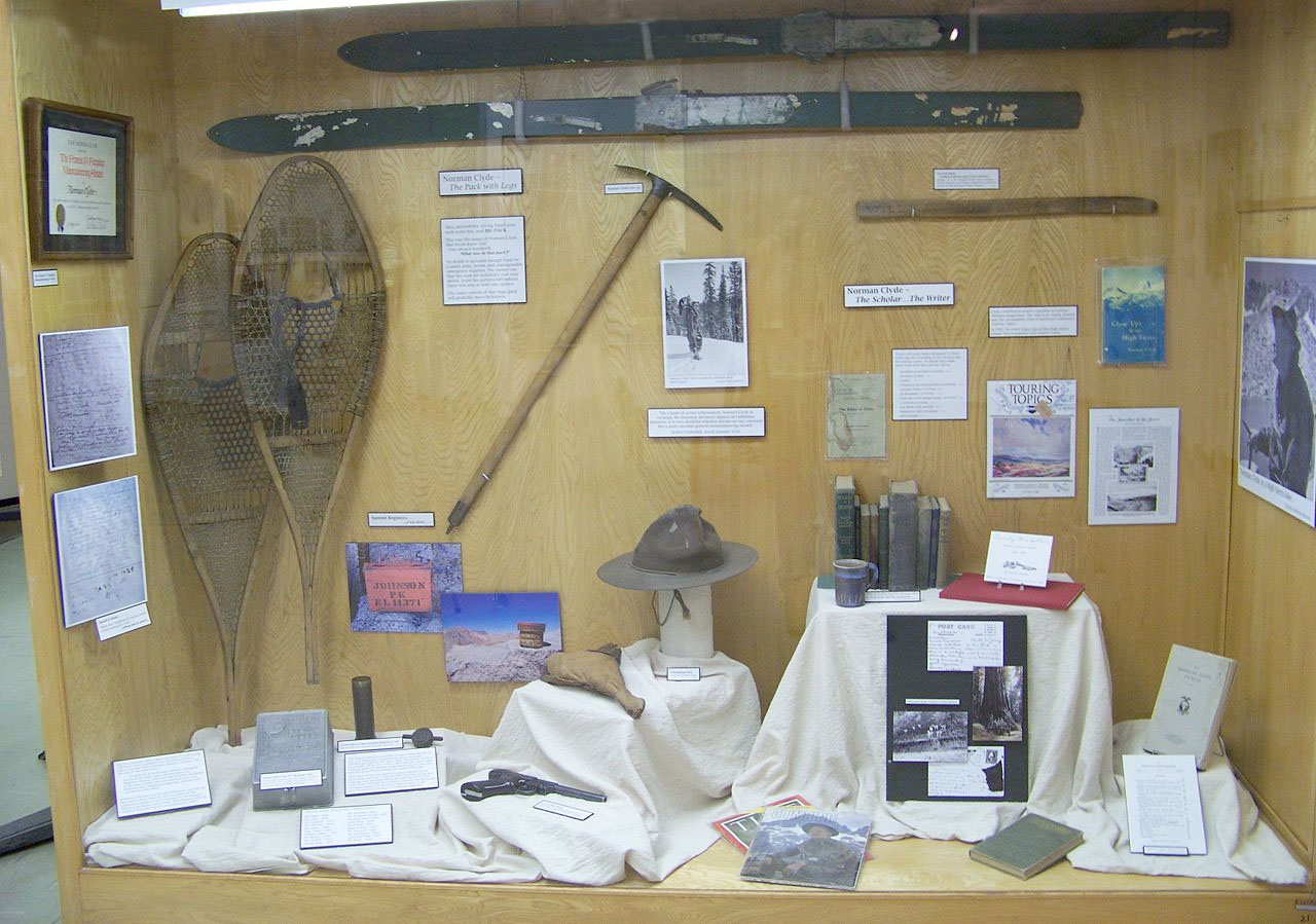 A photograph of part of an exhibit about California mountaineer Norman Clyde, taken at the Eastern California Museum in Independence, CA